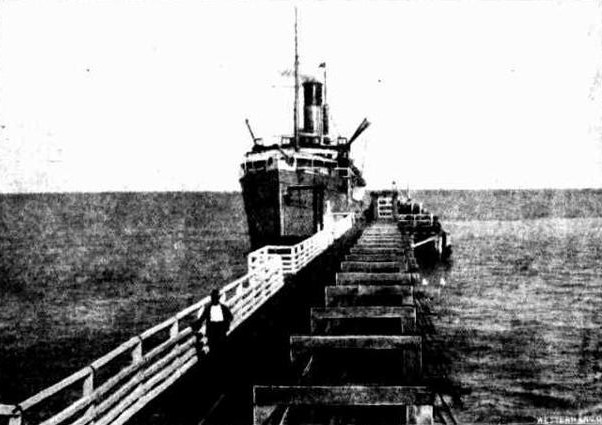 The SS Koombana at Broome, Western Australia.